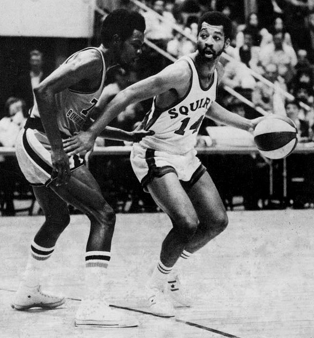 Professional basketball players Harold Fox (left) and Roland "Fatty" Taylor (right) during an exhibition games between the National Basketball Association's Buffalo Braves and the American Basketball Association's Virginia Squires.